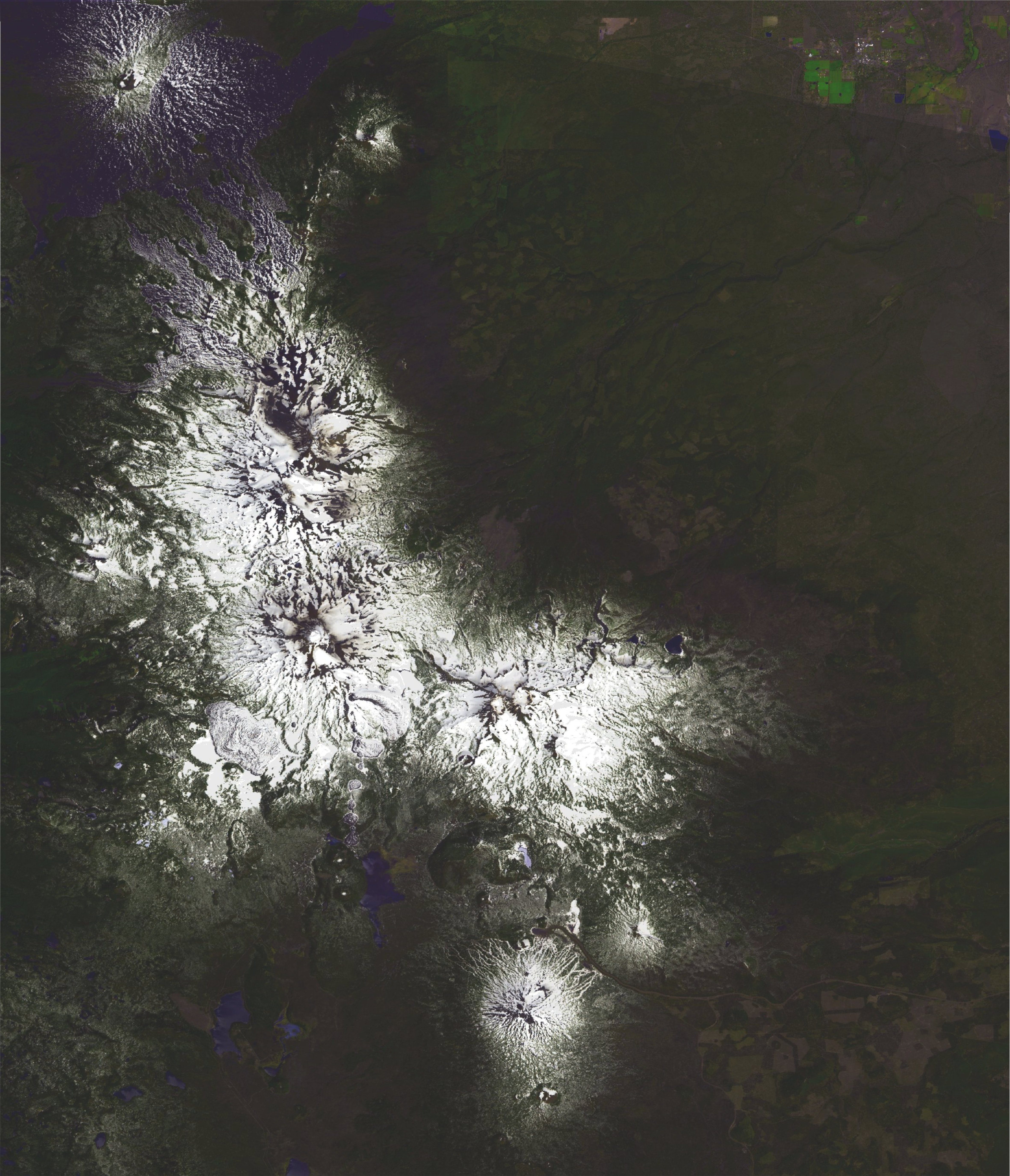 Satellite image of Three Sisters, 22 June 2006. Approximate geographic limits of the map : * N : 44.3 * S : 43.923 * E : -121.49 * W : -121.89 Projection : équirectangulaire + vertical stretching 20% ; système géodésique WGS84